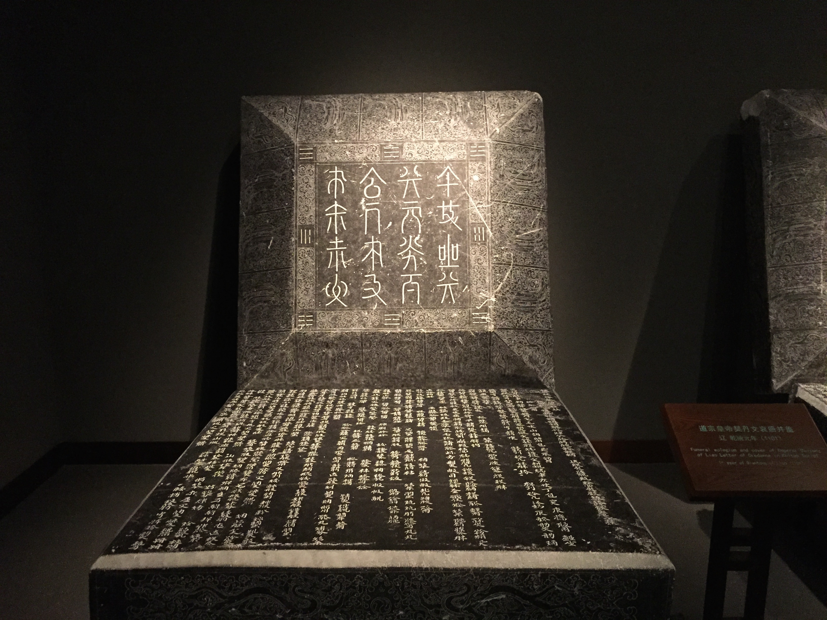 Epitaph in Khitan small script for Empress Xuanyi 宣懿皇后 (1040–1075), consort to Emperor Daozong of Liao (r. 1055–1101).中文（中国大陆）: 宣懿帝母契丹文哀册并盖，藏于辽宁省博物馆